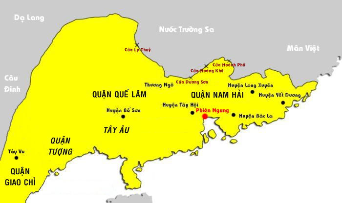 Map of Northeastern Commanderies of Nam Việt Kingdom